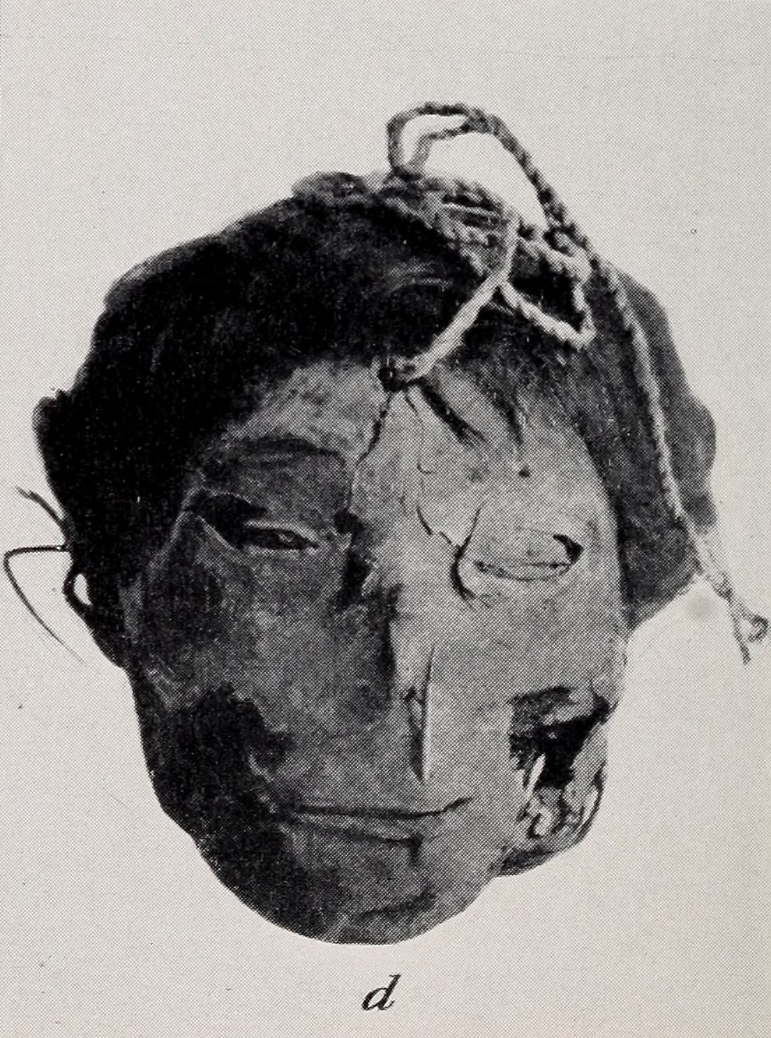 Title: Bulletin Identifier: bulletin117smit Year: 1901 (1900s) Authors: Smithsonian Institution. Bureau of American Ethnology Subjects: Ethnology Publisher: Washington : G. P. O. Text Appearing Before Image: Text Appearing After Image: a, b, Tsantsas (after Colini). c, Effigy jar from Cuzco, showing shrunken heads (after Castelnau, pi. 52). d, Trophy head from a grave at Nazca (after Tello).